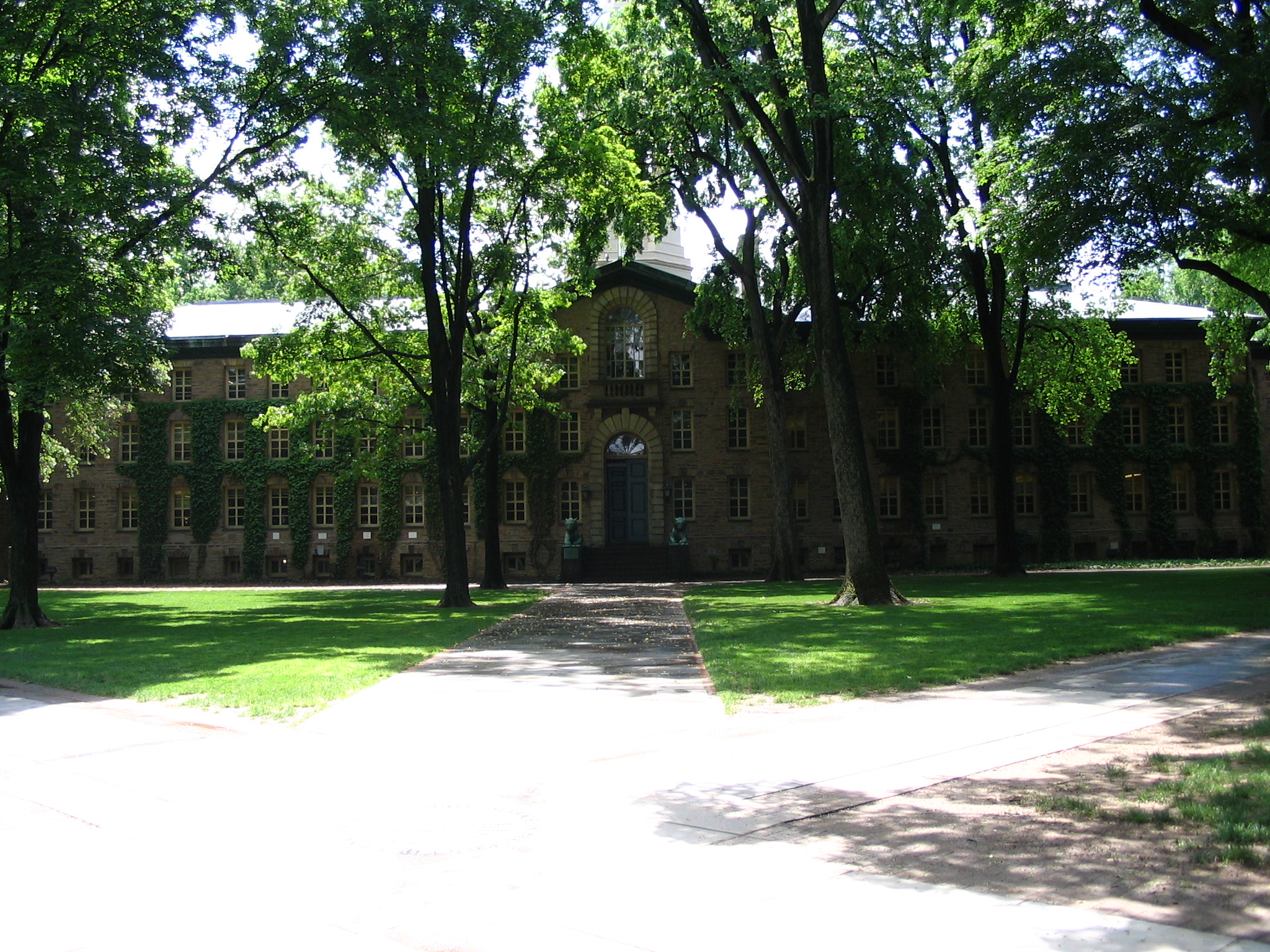 Nassau Hall, Princeton University, Princeton, New Jersey.